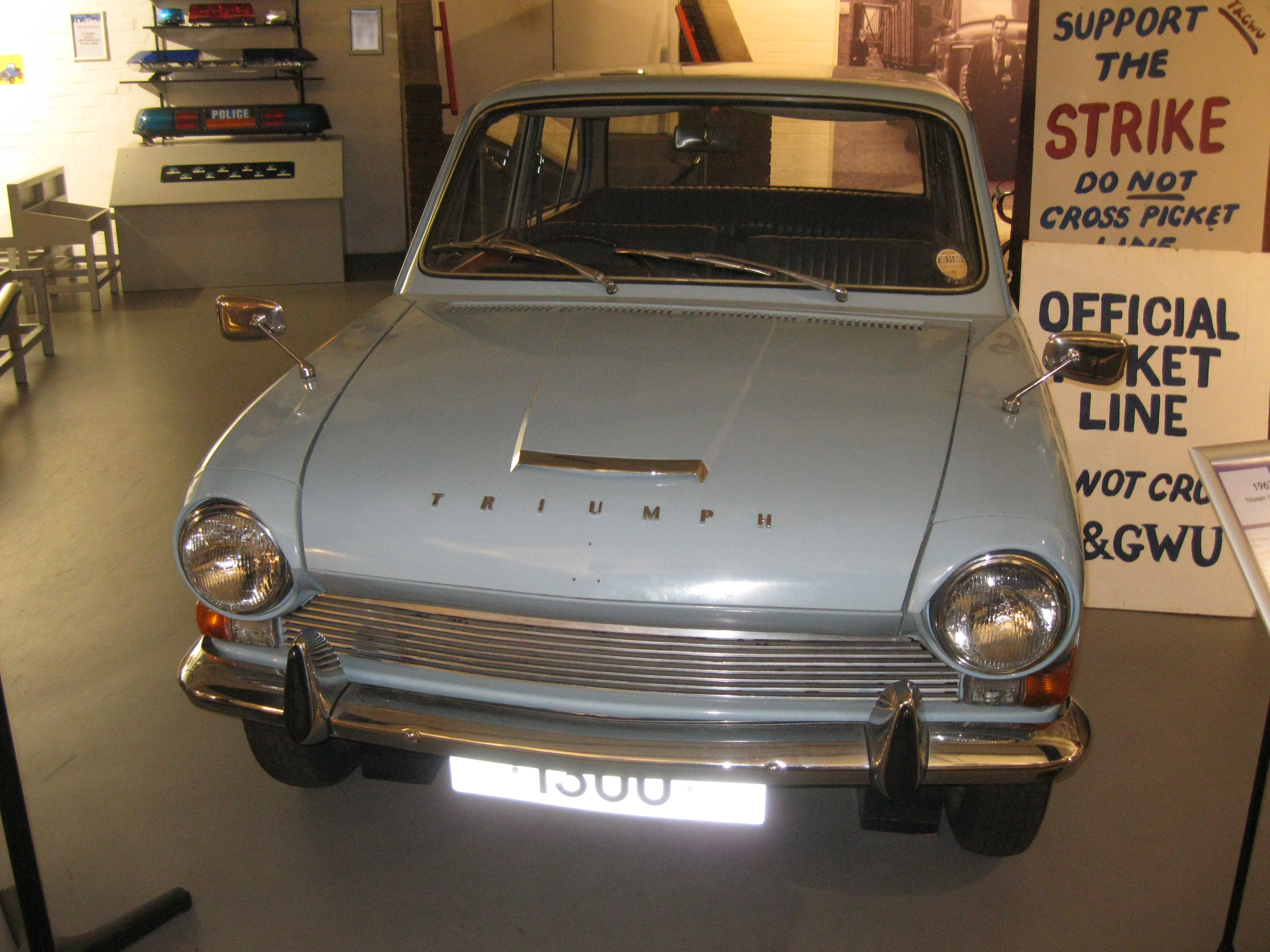 Nice example of Triumph's first front-wheel drive saloon.